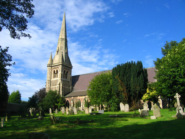 St John the Divine parish church, Horninglow Road North, Burton-upon-Trent, seen from the southeast